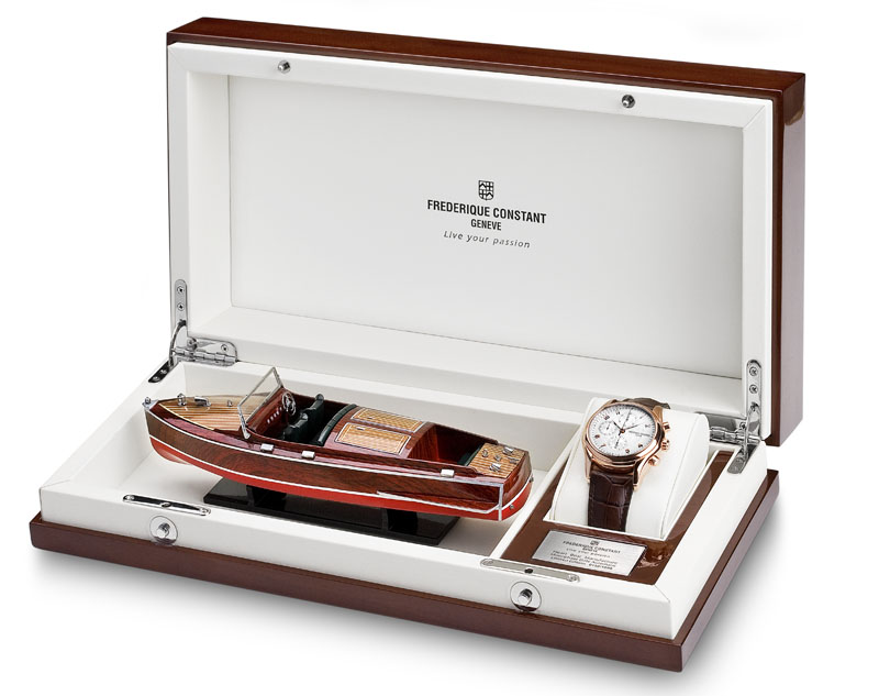 Runabout box for Frederique Constant Runabout watches